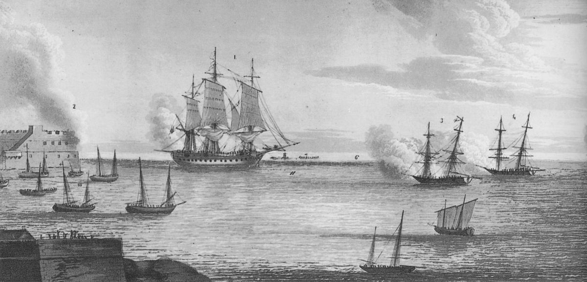 Capture of HMS Minerve by the gunboats Chiffonne (Captain Lécolier) and Terrible (Captain Petrel).